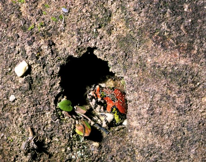 Scaphiophryne gottlebei